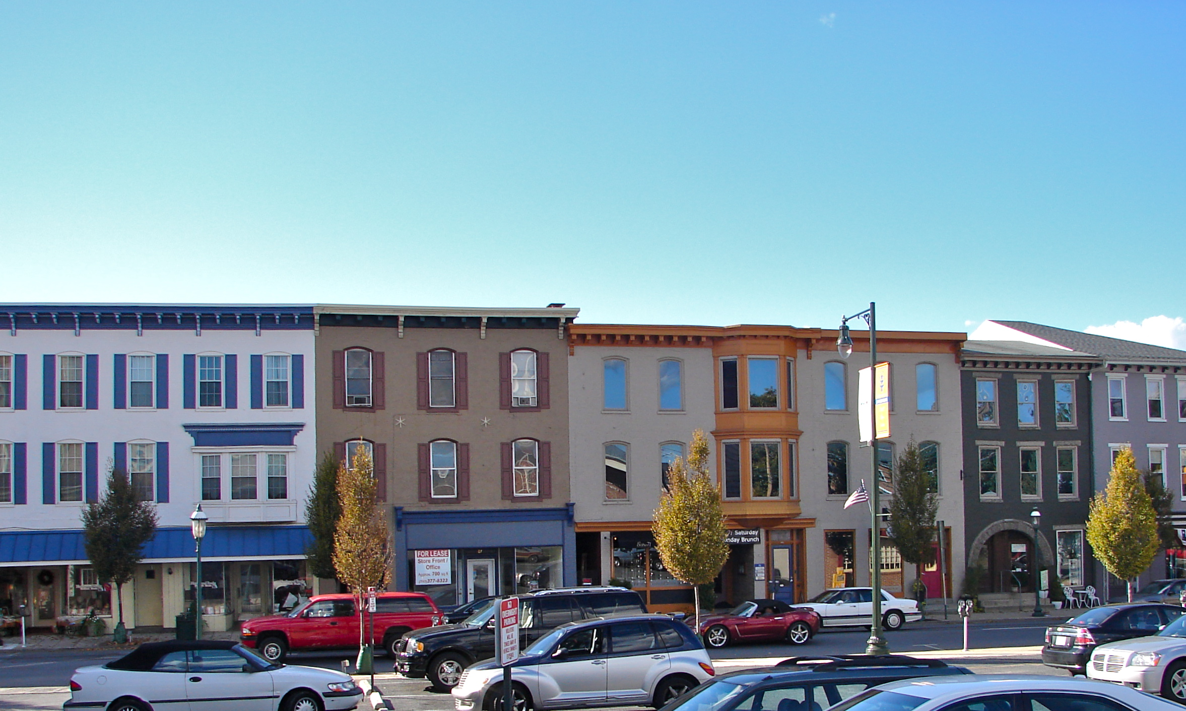 Townhouse Row on the NRHP since December 18, 1978. At 57–85 North Main Street, Chambersburg, Pennsylvania. Just north of the Diamond (central square), most of these buildings were probably built right after the US Civil War, when the Confederates burnt the town down.